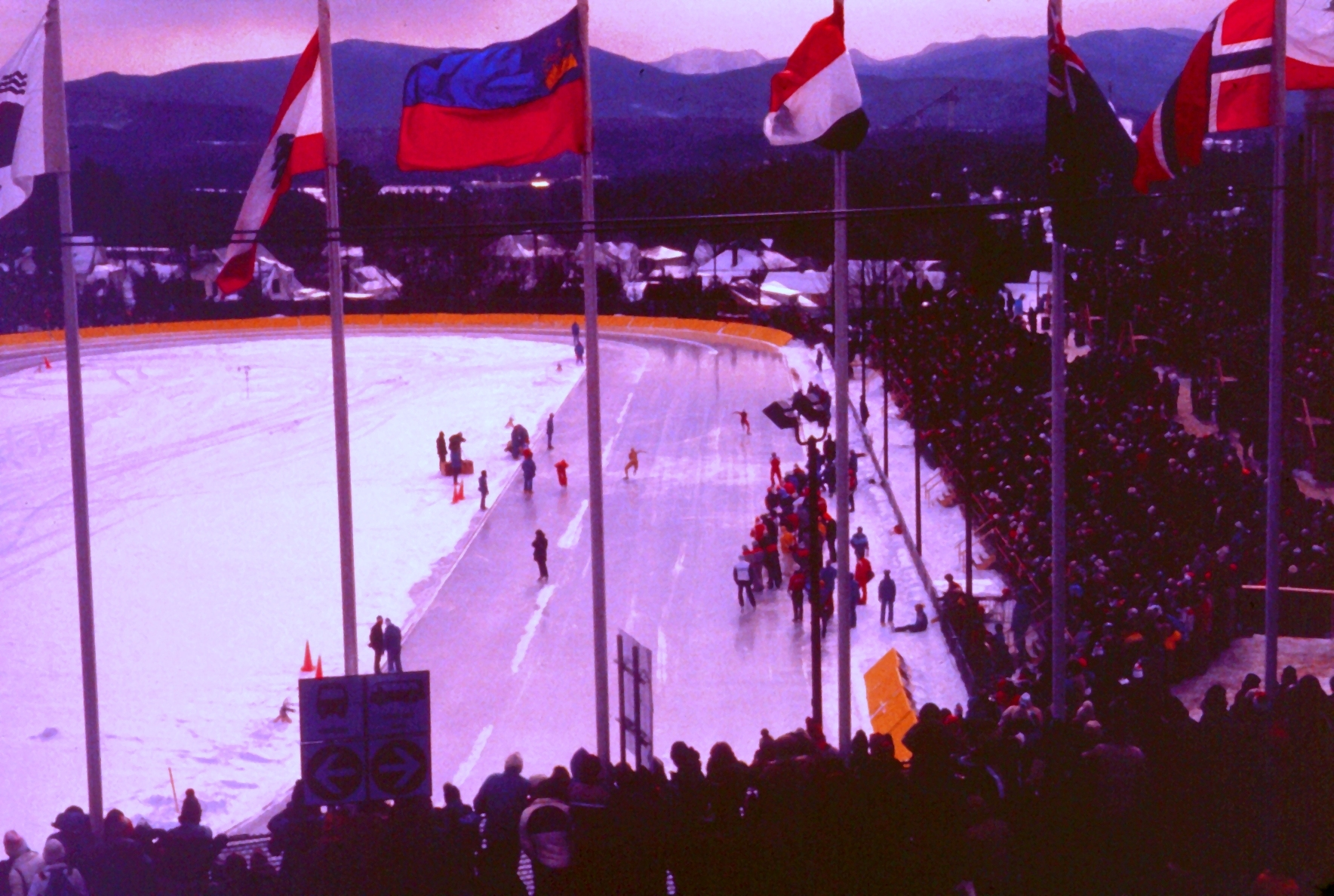 Ice rink at the 1980 Winter_Olympics.